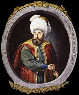 Osman I